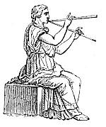 Tibicina wood engraving